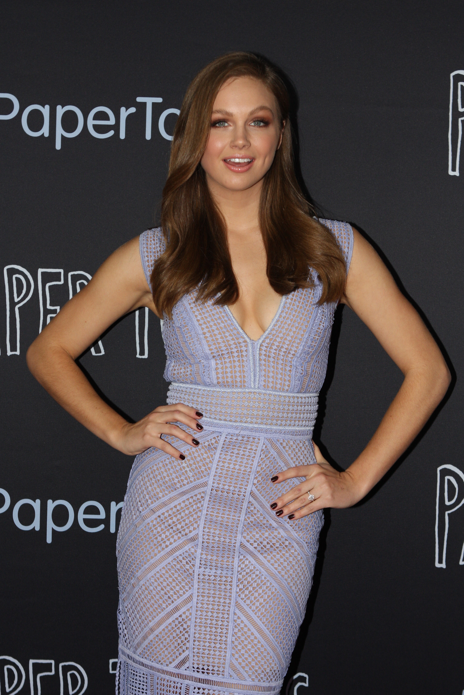 Ksenija Lukich at a red carpet event in Australia for the premiere of the film Paper Towns in 2015.